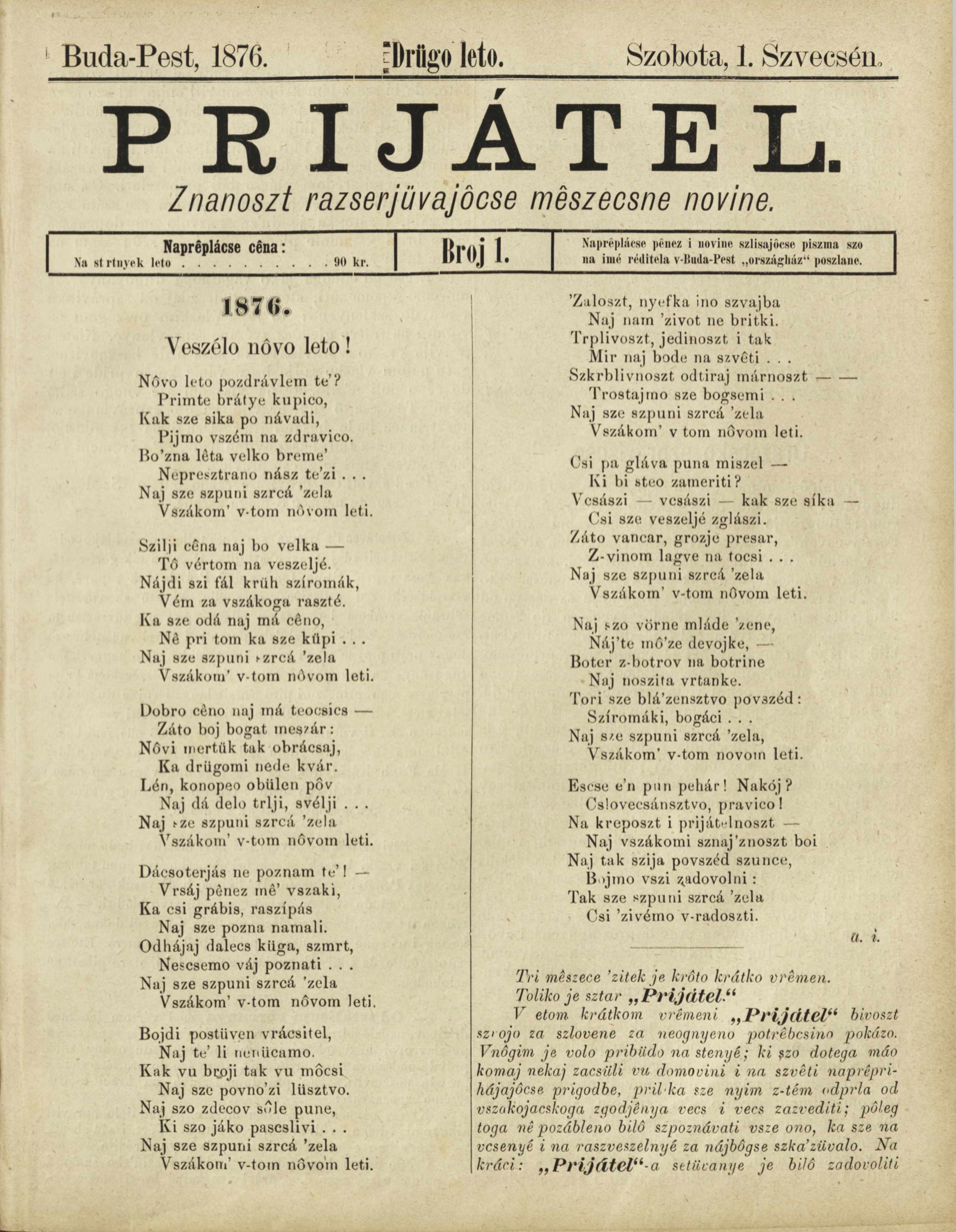 Pijatel (Friend), first prekmurian newspaper of Imre Augustich in 1876